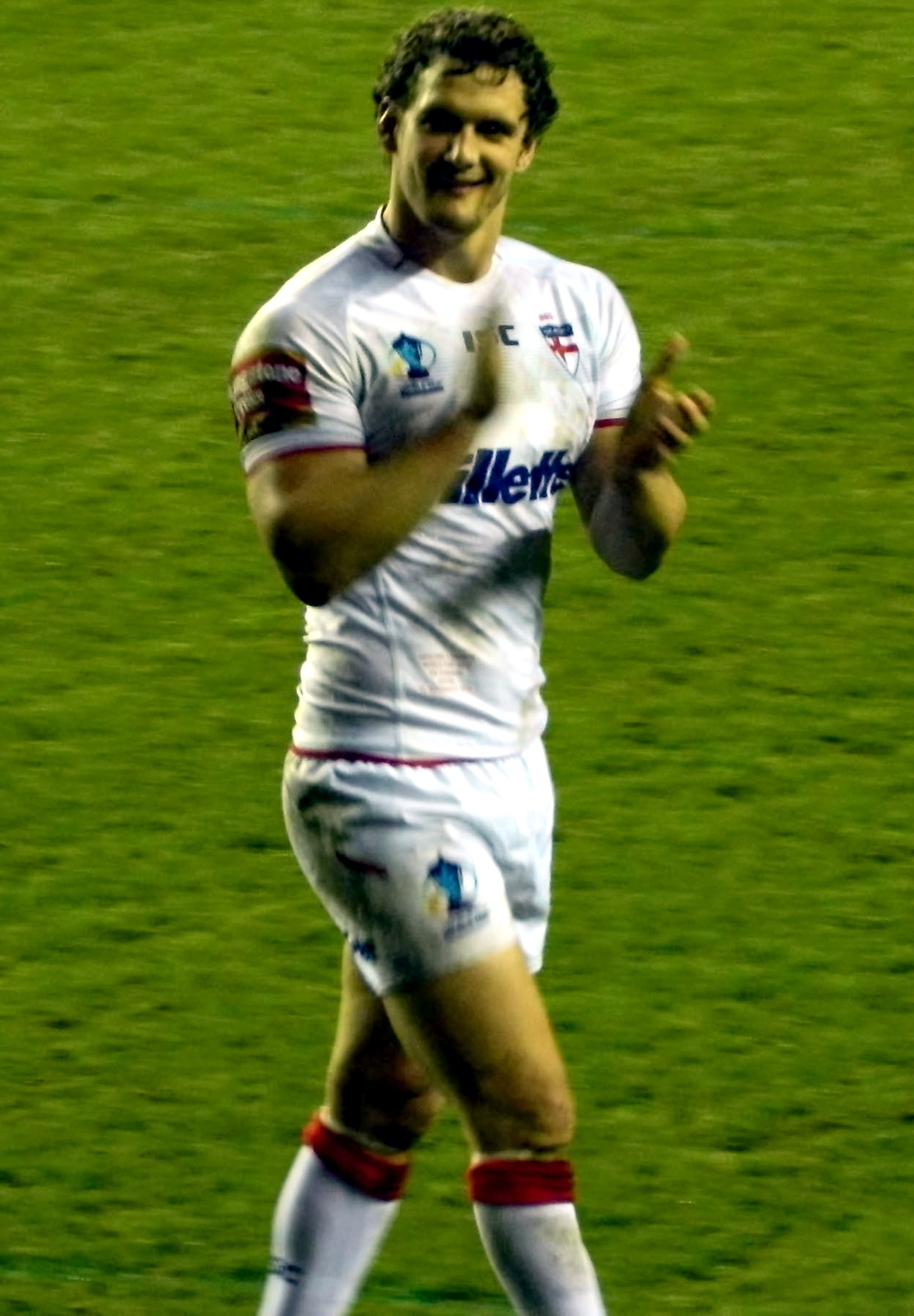 English Sean O'Loughlin after 2013 Rugby League World Cup quarterfinal between England and France at DW Stadium, Wigan.